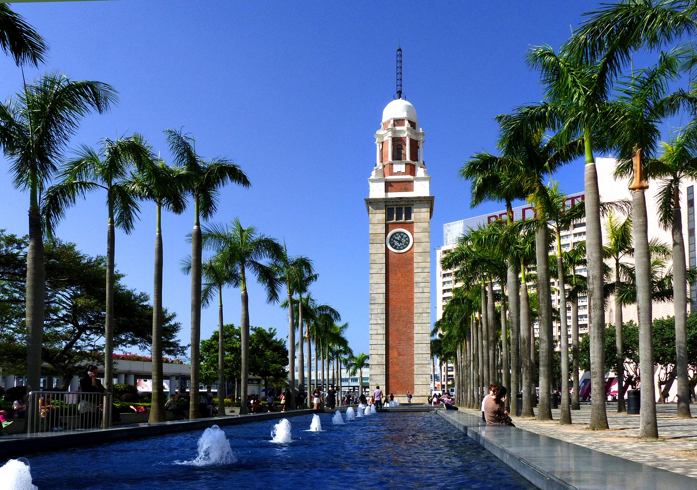 Standing 44-metres tall, the old Clock Tower was erected in 1915 as part of the Kowloon–Canton Railway terminus. The once-bustling station is long gone, but this red brick and granite tower, now preserved as a Declared Monument, survives as an elegant reminder of the Age of Steam. It has also been a memorable landmark for the millions of Chinese immigrants who passed through the terminus to begin new lives not just in Hong Kong, but in other parts of the world via the city’s harbour. A history of the Clock Tower 1910 The Kowloon-Canton Railway line is opened. 1913 Foundations are laid for the terminus in Tsim Sha Tsui. 1915 The station and its clock tower are almost complete but the delivery of fittings and fixtures from Britain are delayed because of the First World War. 1916 Terminus station is completed and officially opened. However, the clock was not installed in the tower because of concerns about costs. Photographs from this era show the tower without a clock face. 1919 Funds to complete the clock tower were eventually raised. The bell and electric clock arrive in Hong Kong but installation was further postponed until necessary drawings and instructions from the manufacturer were obtained. 1921 After years of delays, the clock begins operating. 1970s A new terminus station is opened in Hung Hom and the old station is demolished with the execption of the Clock Tower. 1990s The Clock Tower is listed as a Declared Monument.